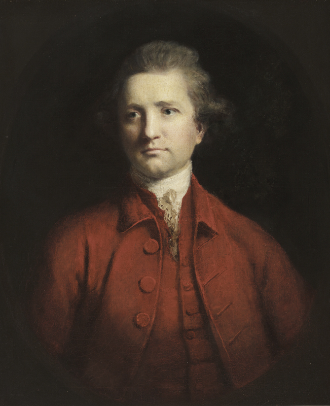 Portrait of the Scottish Orientalist, writer, playwright and army officer Alexander Dow.